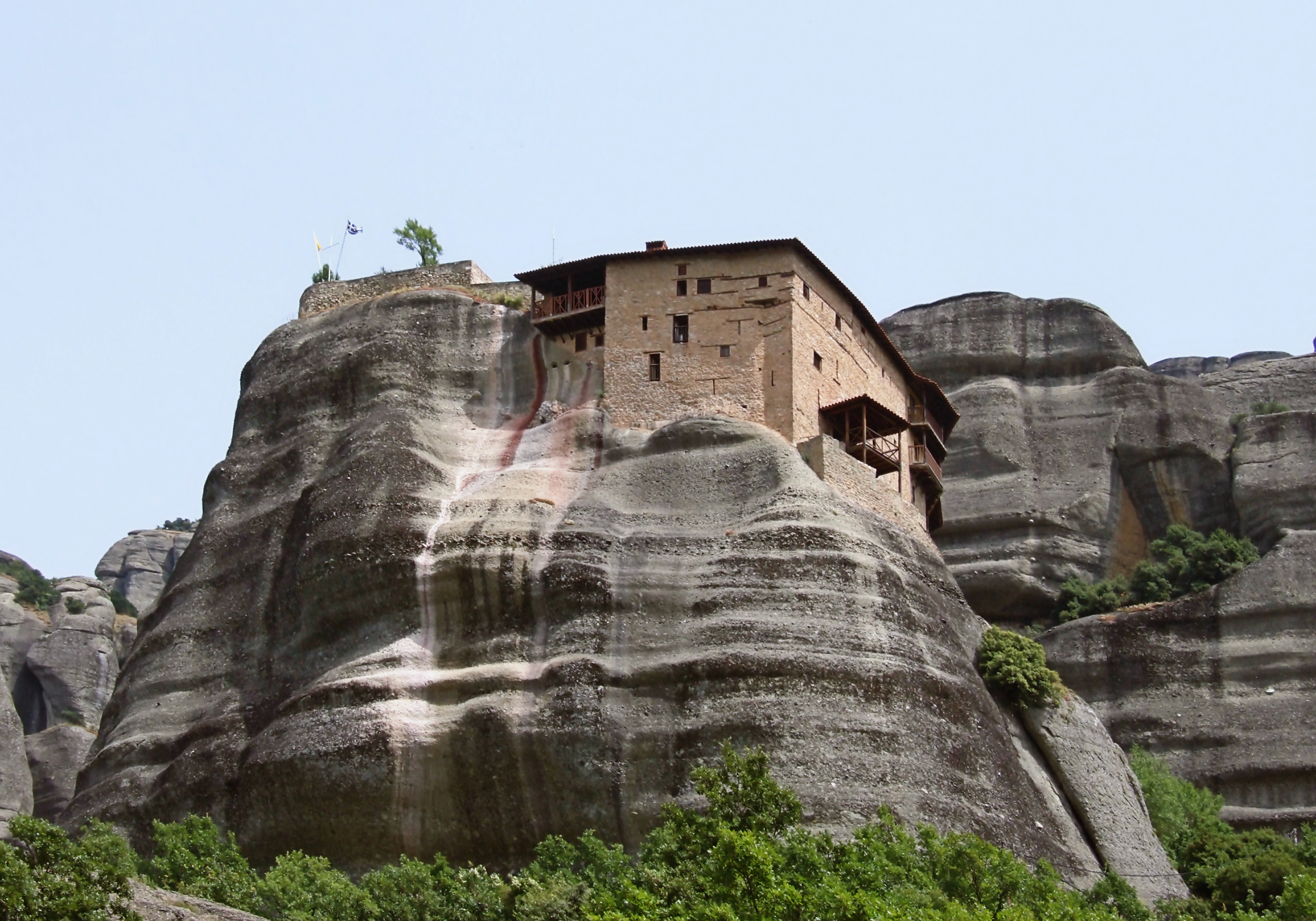 Moni Ayou Nikolaou (Meteora, Greece)